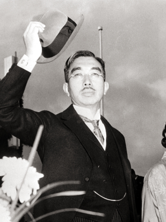 Emperor Hirohito